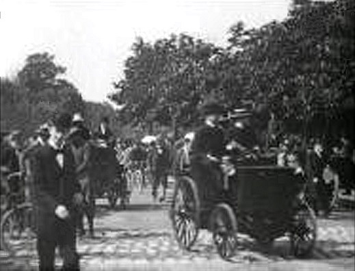 Paris-Meulan car excursion in 1896